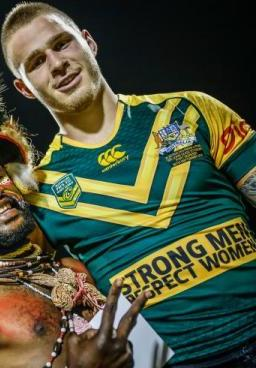 Jerry Latimore & Euan Aitken